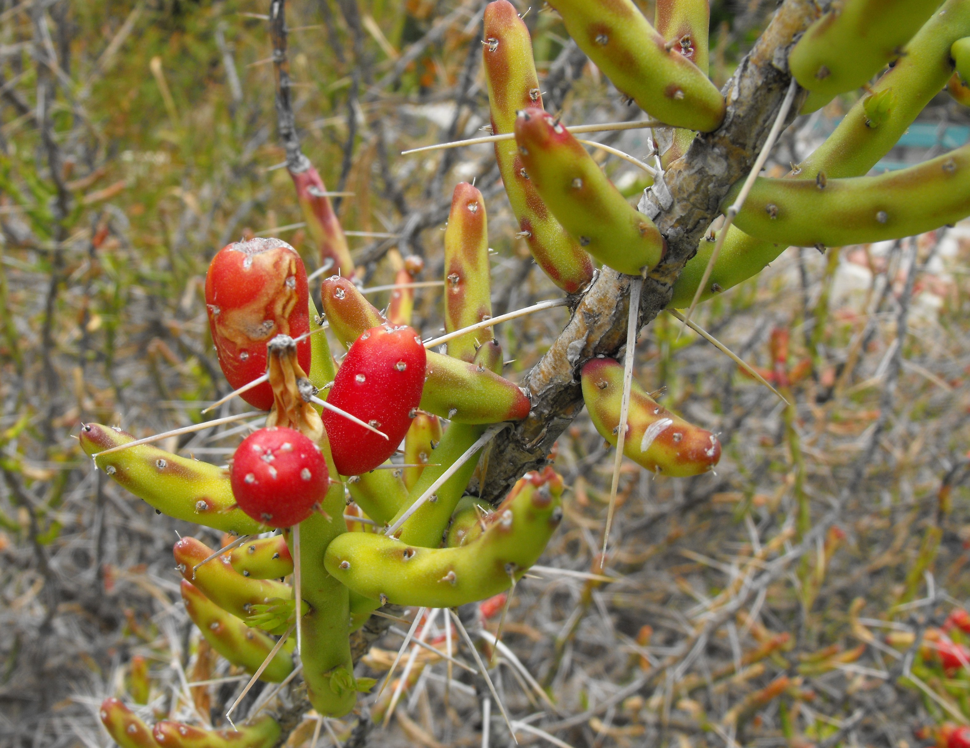 Cylindropuntia leptocaulis syn. Opuntia leptocaulis in the Mediterranean Garden at San Diego State University, California, USA.